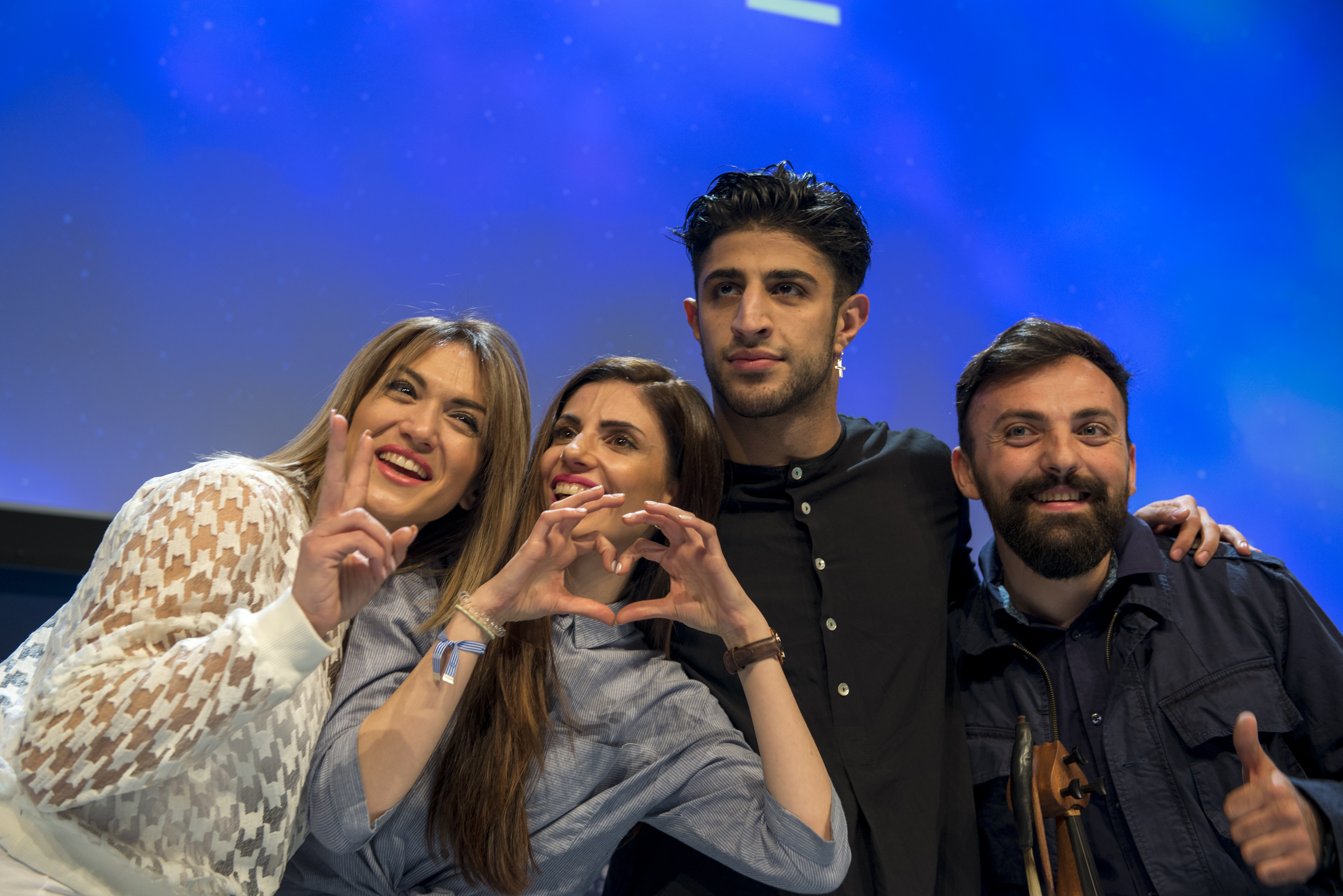 Argo at a Meet & Greet during the Eurovision Song Contest 2016 in Stockholm. (Help translate this text)